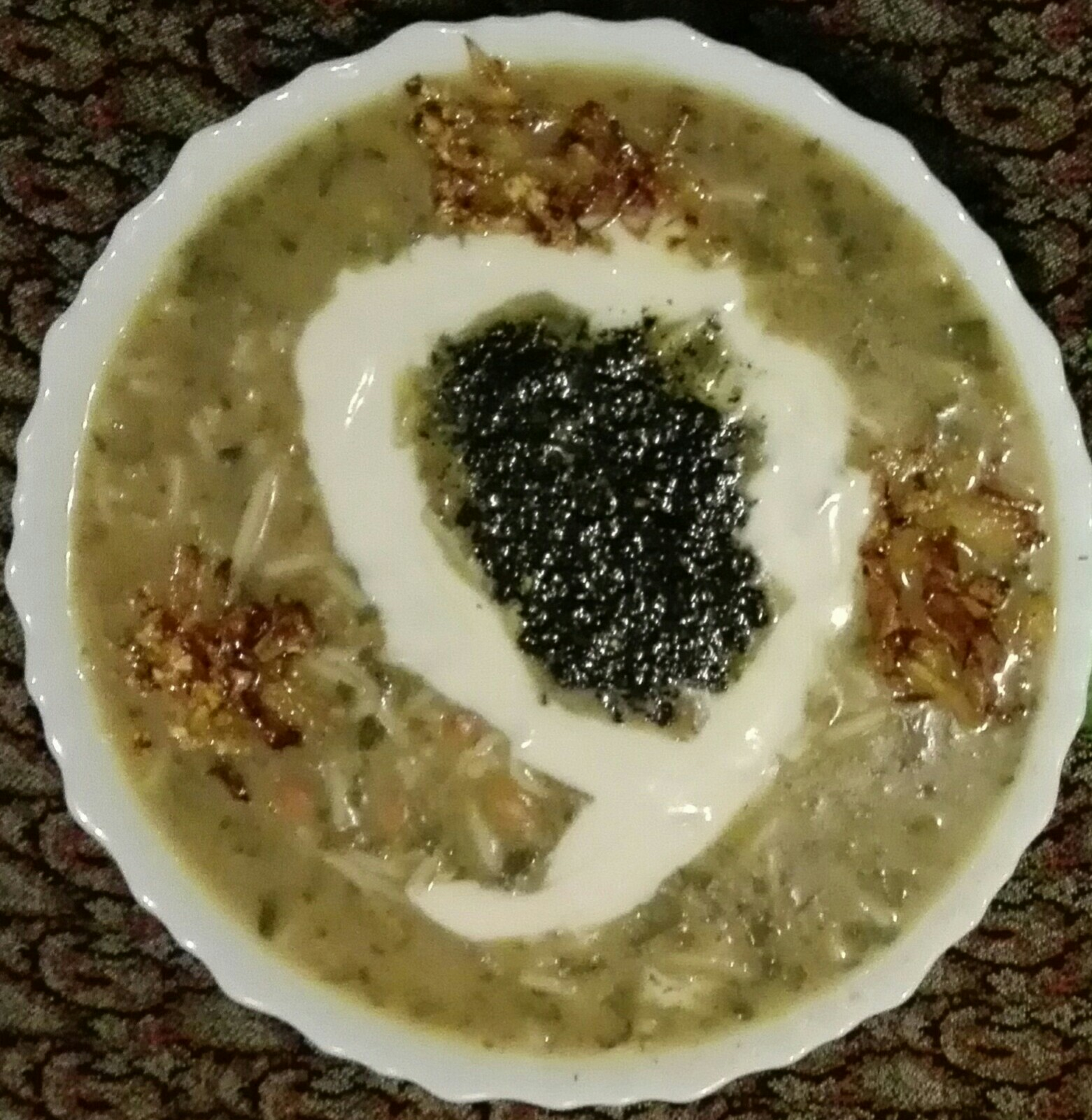 Ash reshteh